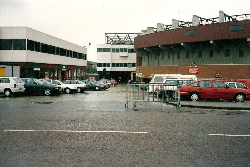 Outside Old Trafford in 1992. To the left: the old supporter shop.